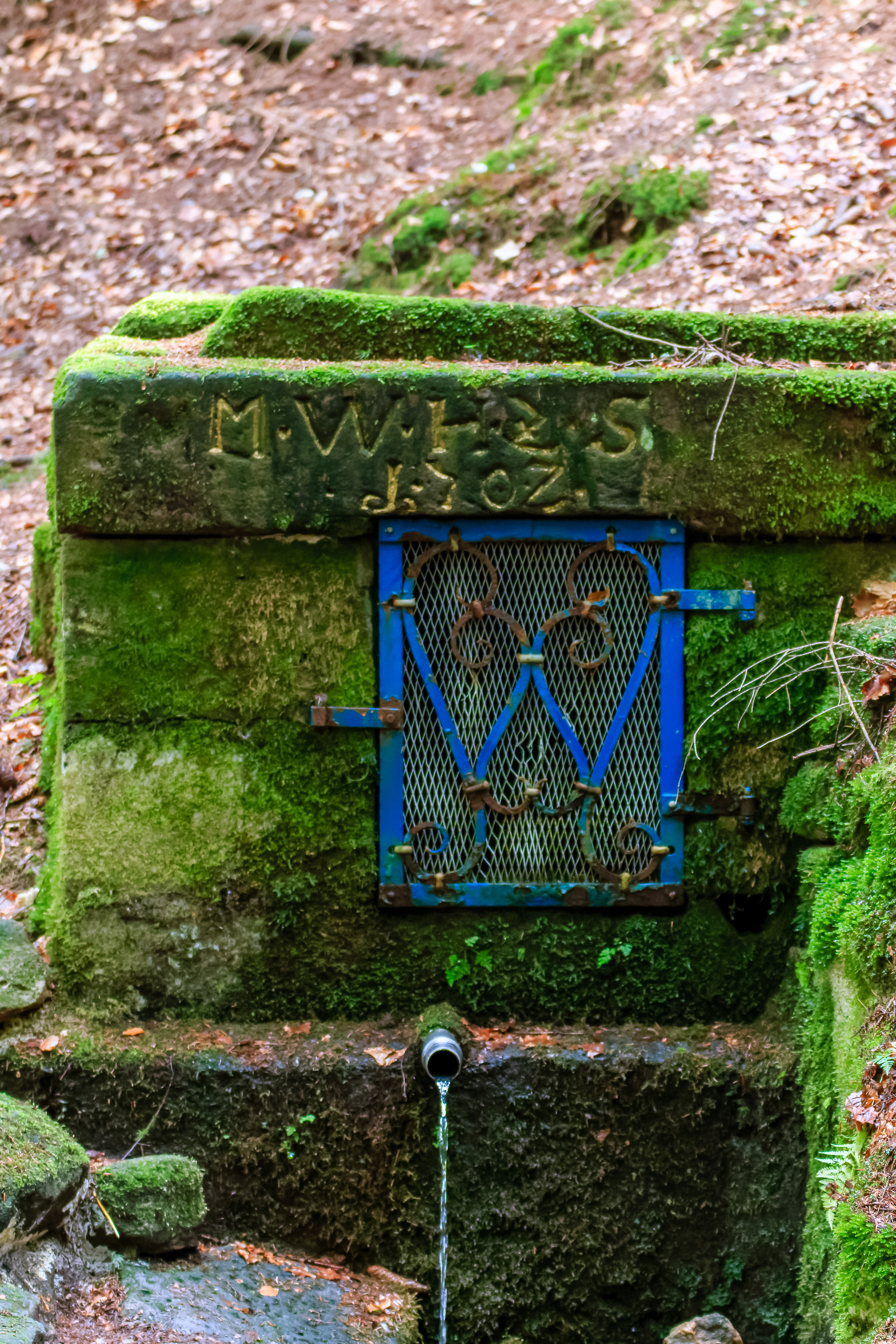 Cased spring of the Wilhelmsbrunnen_(Schleusingen)